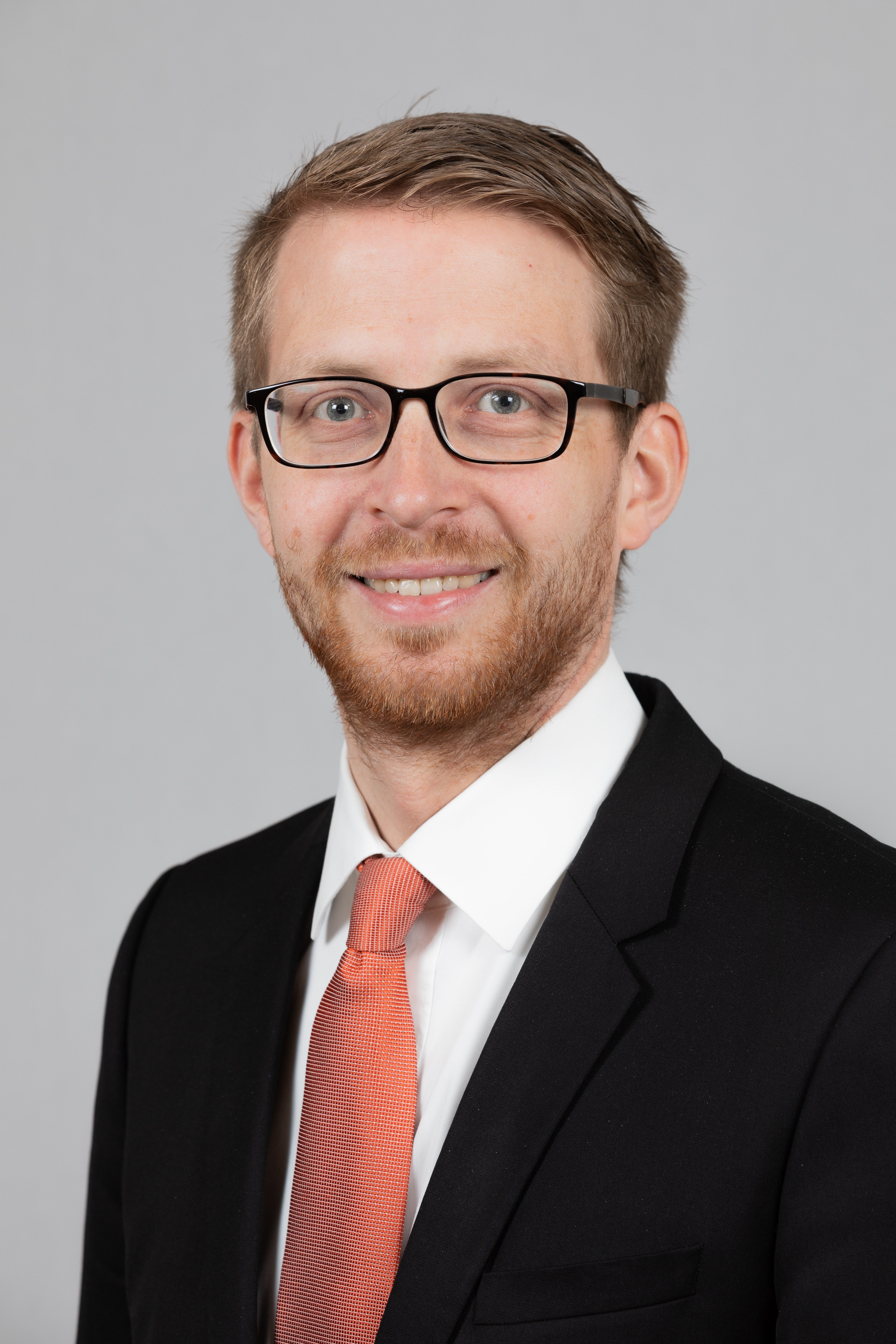 Michael Ruhl, Landtag of Hesse, Wiesbaden, April 3rd, 2019